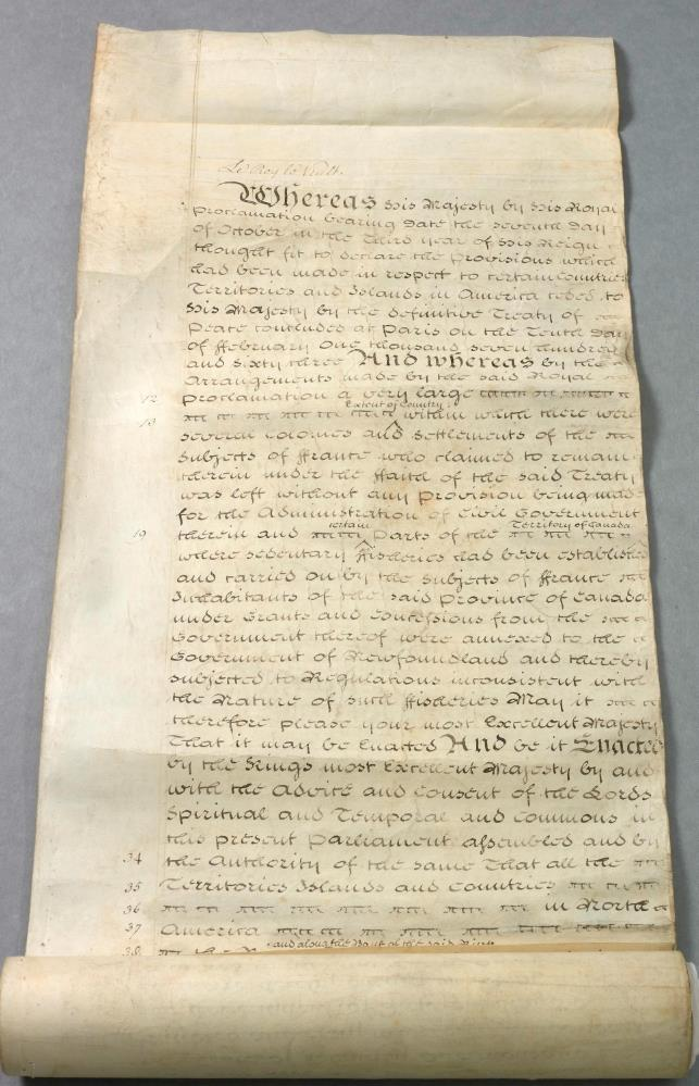 An Act for making more effectual Provision for the Government of the Province of Quebec in North America. The Quebec Act attempted to provide a settlement for the British acquisition of French Canada.